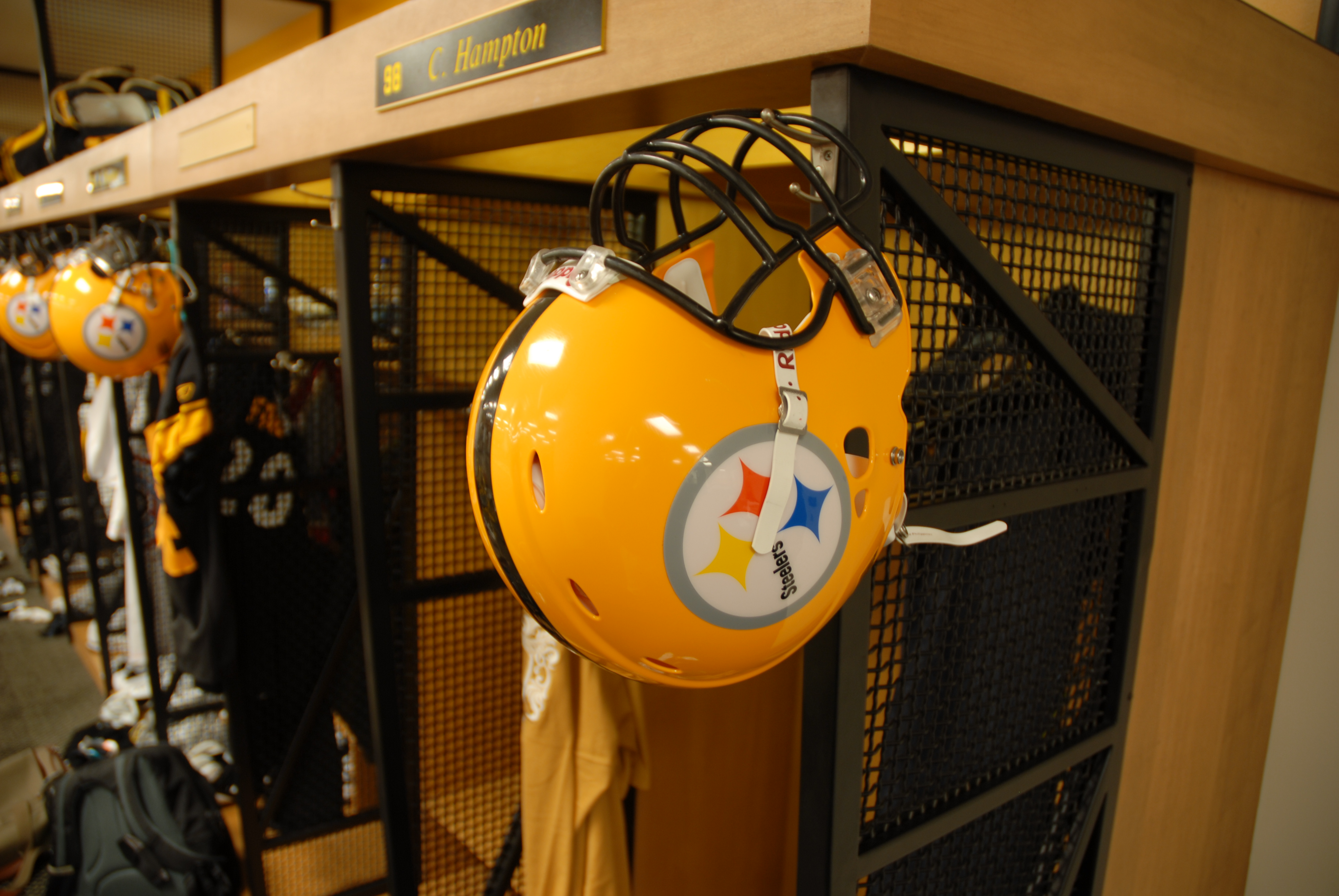 The 75th year "Throwback" uniform helmet and jersey of Casey Hampton, of the Pittsburgh Steelers.